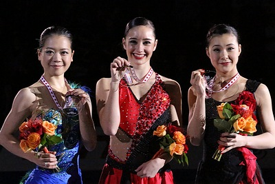 The ladies podium at the 2012 Skate Canada International. From left: Akiko Suzuki (2nd), Kaetlyn Osmond(1st), Kanako Murakami (3rd)